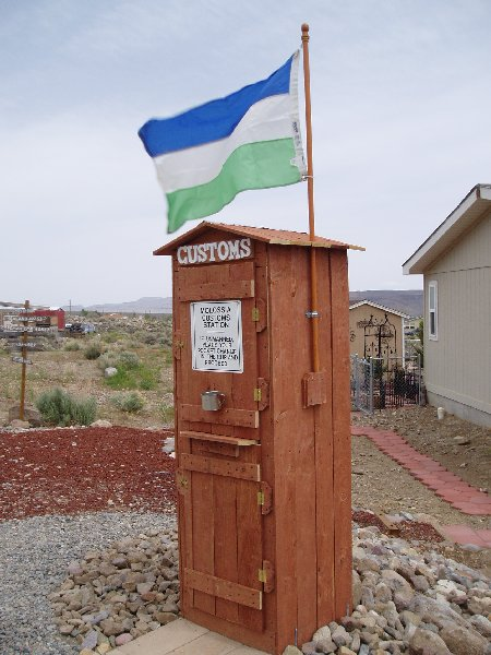 Customs post at the entrance to Molossia.